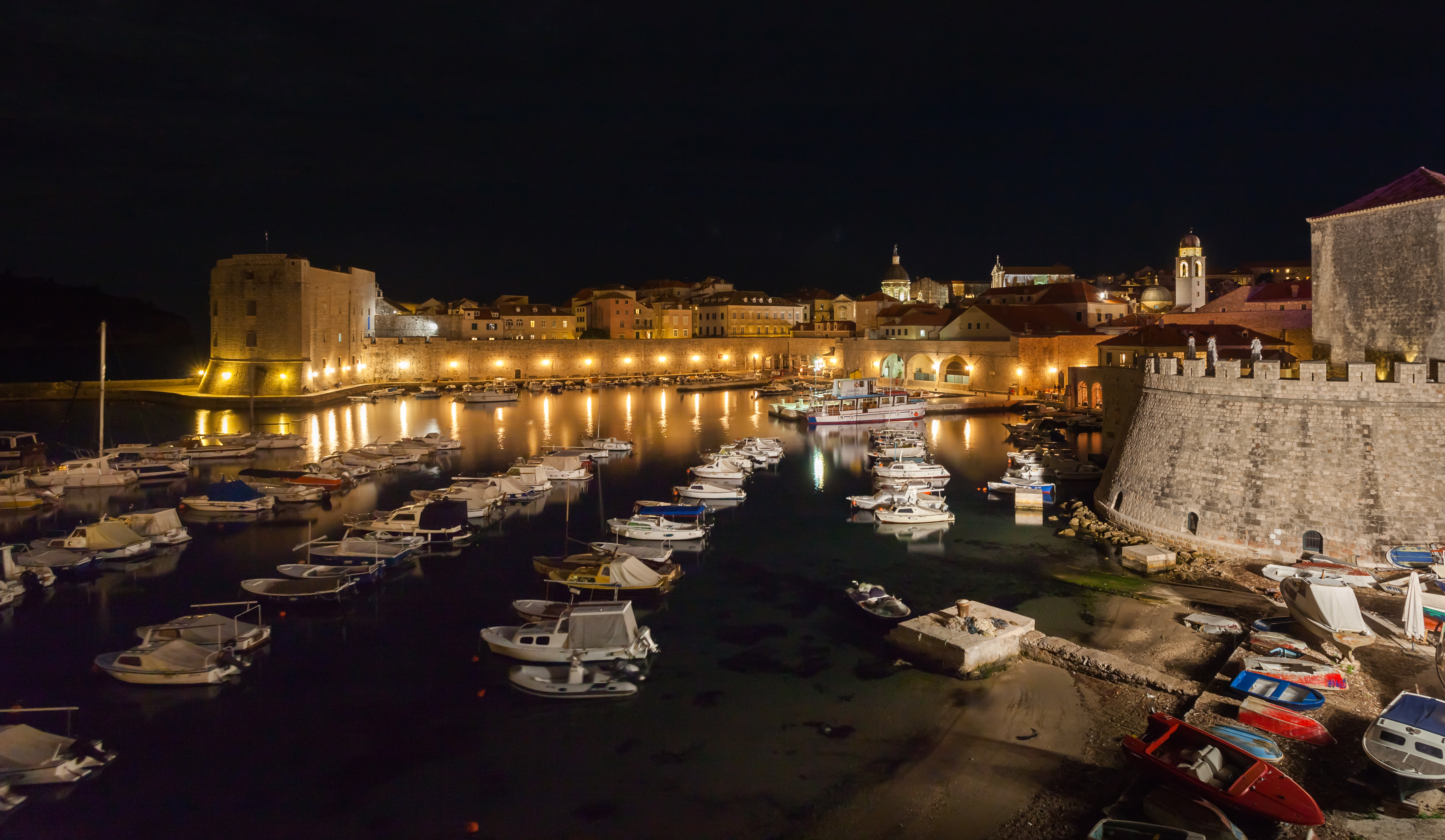 Old harbour, old city of Dubrovnik, Croatia